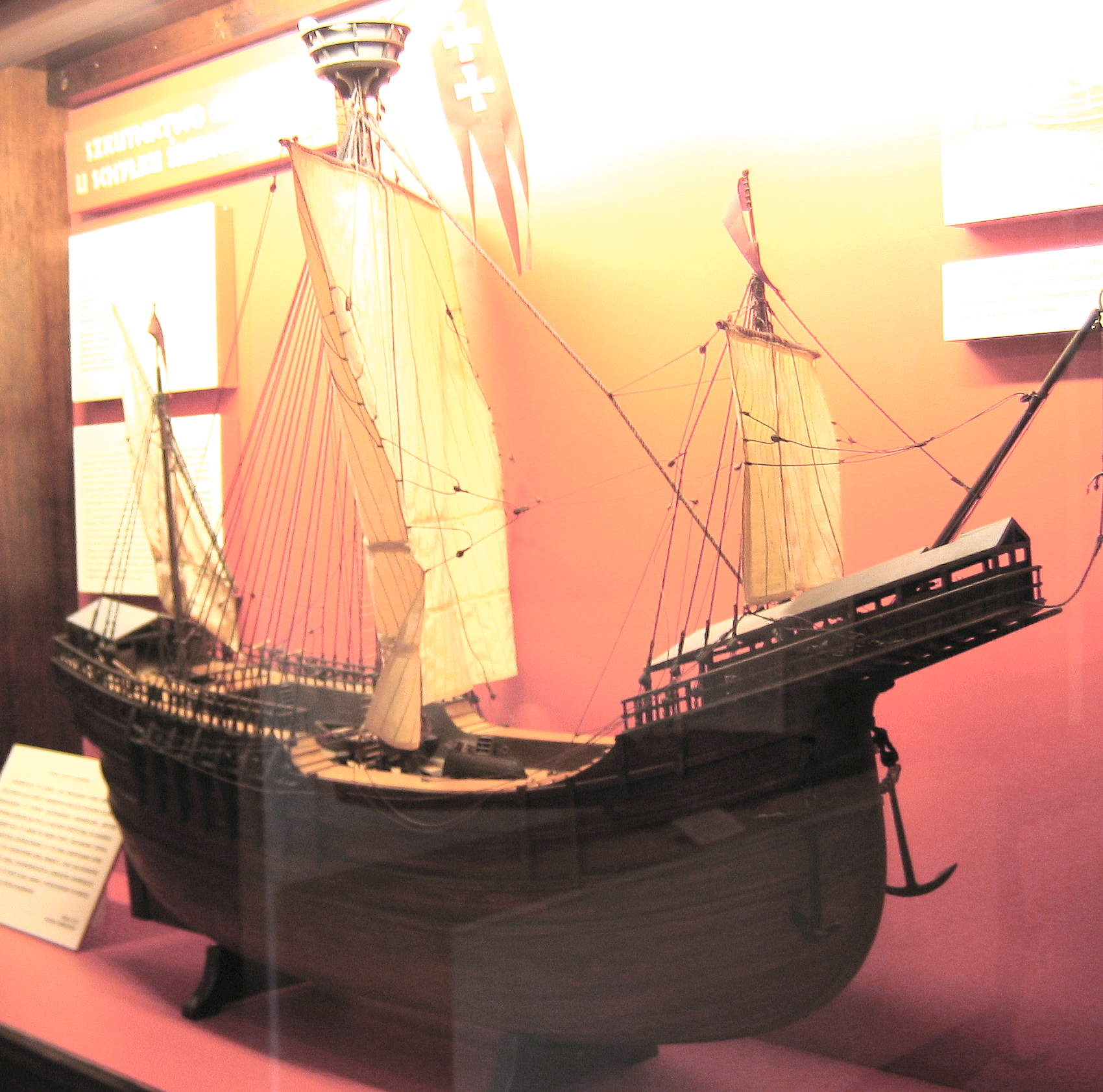 Model of Peter von Danzig. The Peter von Danzig was a German 15th century ship of the Hanseatic League. It was the first large vessel in the Baltic Sea featuring Caravel planking.